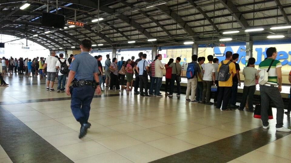 Platform area of LRT Roosevelt Station